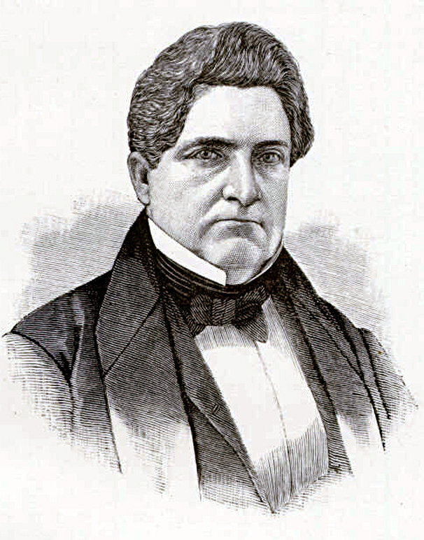 George Sykes, US Representative from New Jersey